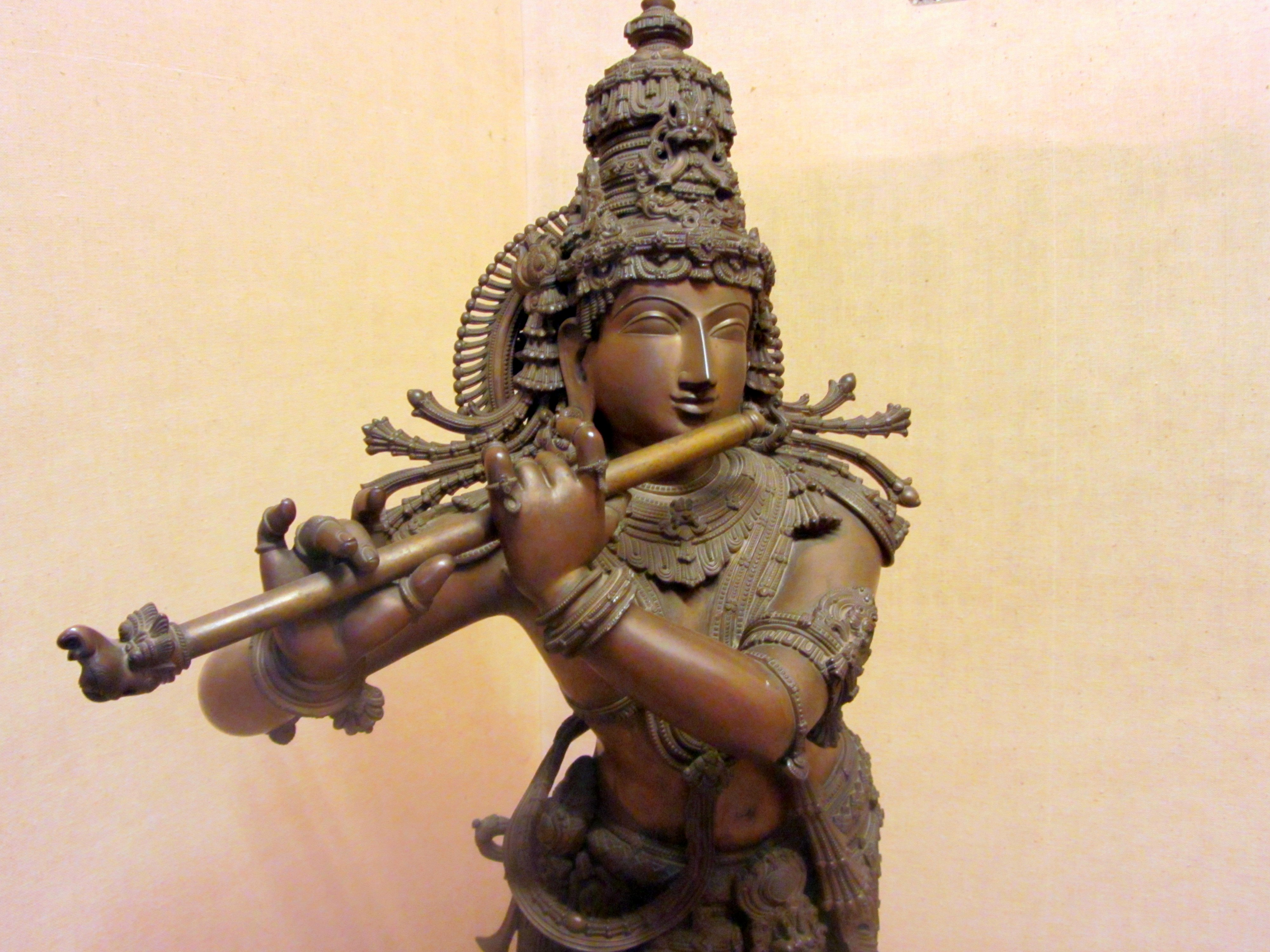 Bronze figure of Krishna with a flute in hand